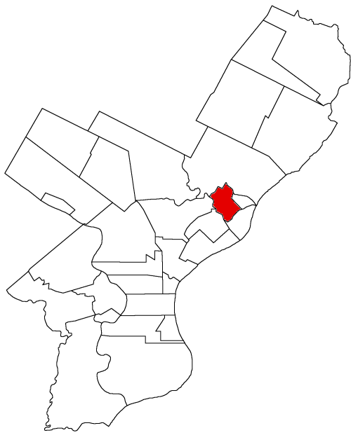 Map of Philadelphia County, Pennsylvania highlighting Frankford Borough prior to the Act of Consolidation, 1854